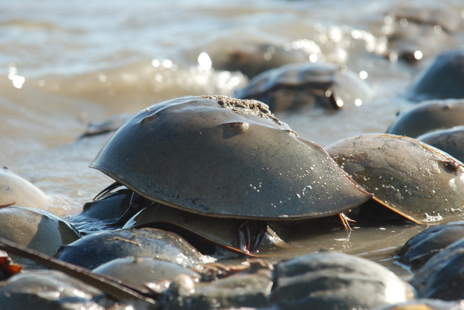 Mispillion Harbor, Delaware. Credit: Gregory Breese/USFWS